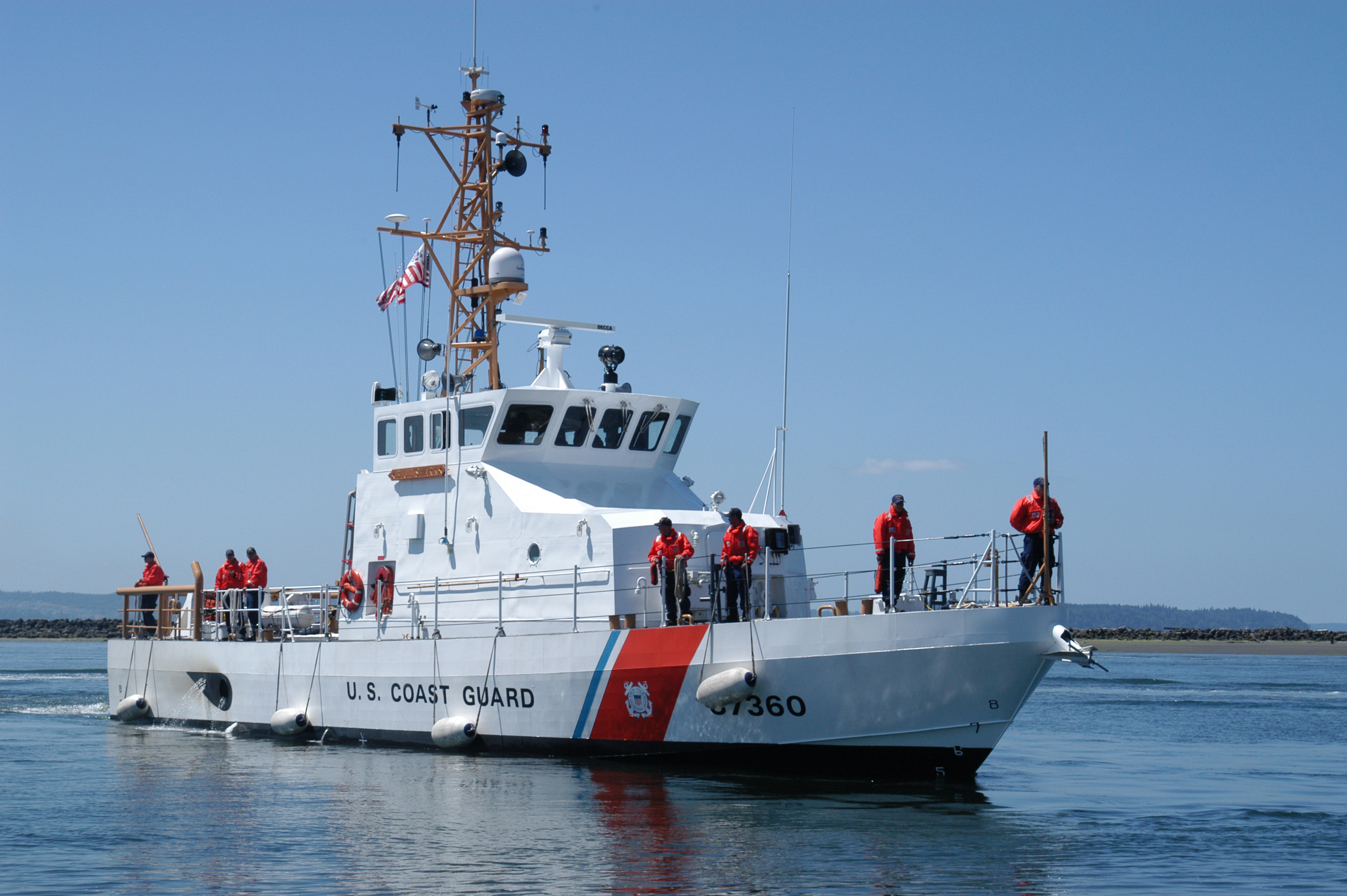 Everett, Wash. (July 19, 2005) - The U.S. Coast Guard cutter USCGC Blue Shark (WPB 87360) arrives at its new homeport of Everett, Wash., after an extensive three month underway period. Blue Shark consists of 10 coast guard members who left Louisiana in March to make their way around the country to arrive at Naval Station Everett. The vessel will be commissioned this August 2005. U.S. Navy photo by Photographer's Mate 3rd Class Jacob J. Kirk (RELEASED)